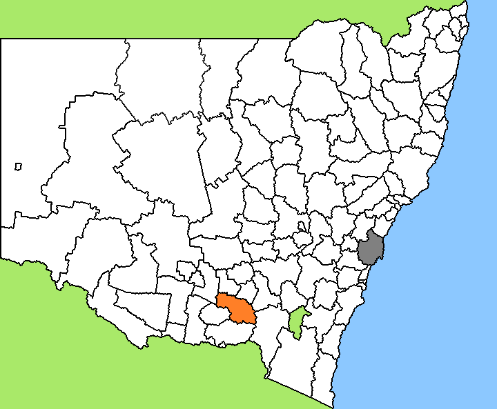 Map of New South Wales/Australia, LGA of the City of Wagga Wagga highlighted